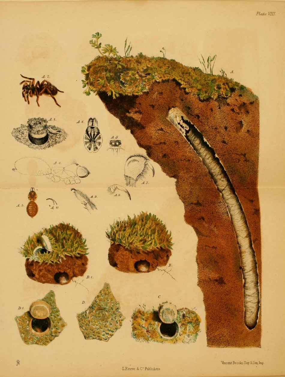 Plate VIII., fig. A. — The nest of Nemesia caementaria ; A 1, the door of the same, partially open; A 2, the spider; A 3, the same deprived of its legs, from a specimen preserved in spirits [figs. A, A 1, 2, and 3, of the natural size]; figs. A 4, 5, 6, 7, 8, 9, and 10 as in Plate VII., and magnified ; B, a moss-covered lump of earth, in which the door of a nest of the same type as that at A lies concealed ; B 1, the same, with the door open ; C, the door and mouth of another similar nest, showing the claw marks on its under surface ; D, the closed door of a third nest of the same kind ; D 1, the same, opened.